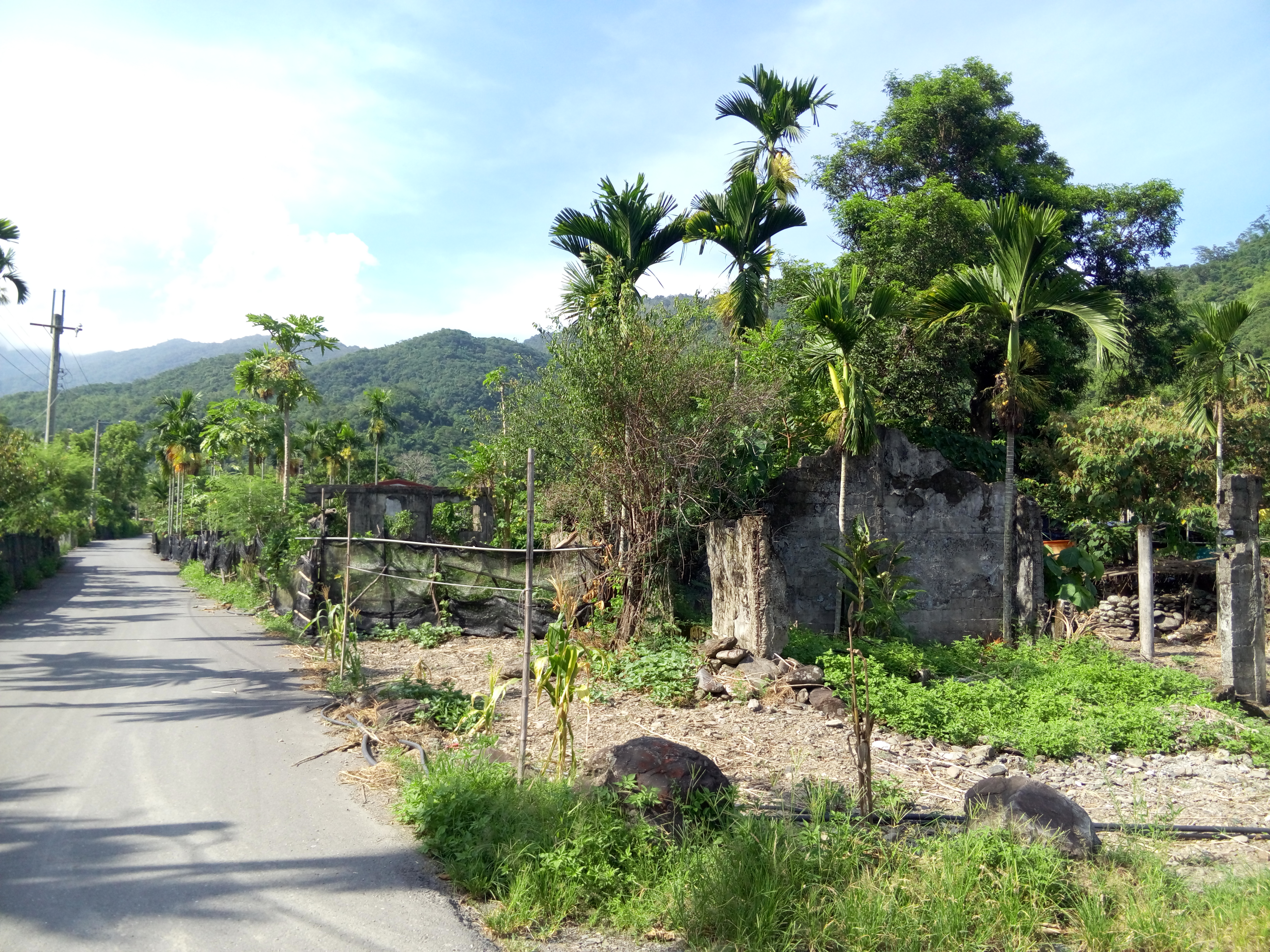 Tong-Xi Village